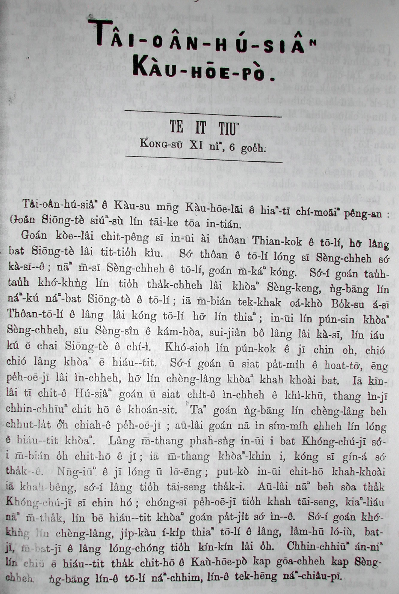 The first issue of Taiwan Capitol Church News (Tâi-oân-hú-siâⁿ Kàu-hōe-pò), which was published by the Presbyterian Church in Taiwan in 1885. The name was later shortened to Taiwan Church News (official English name).